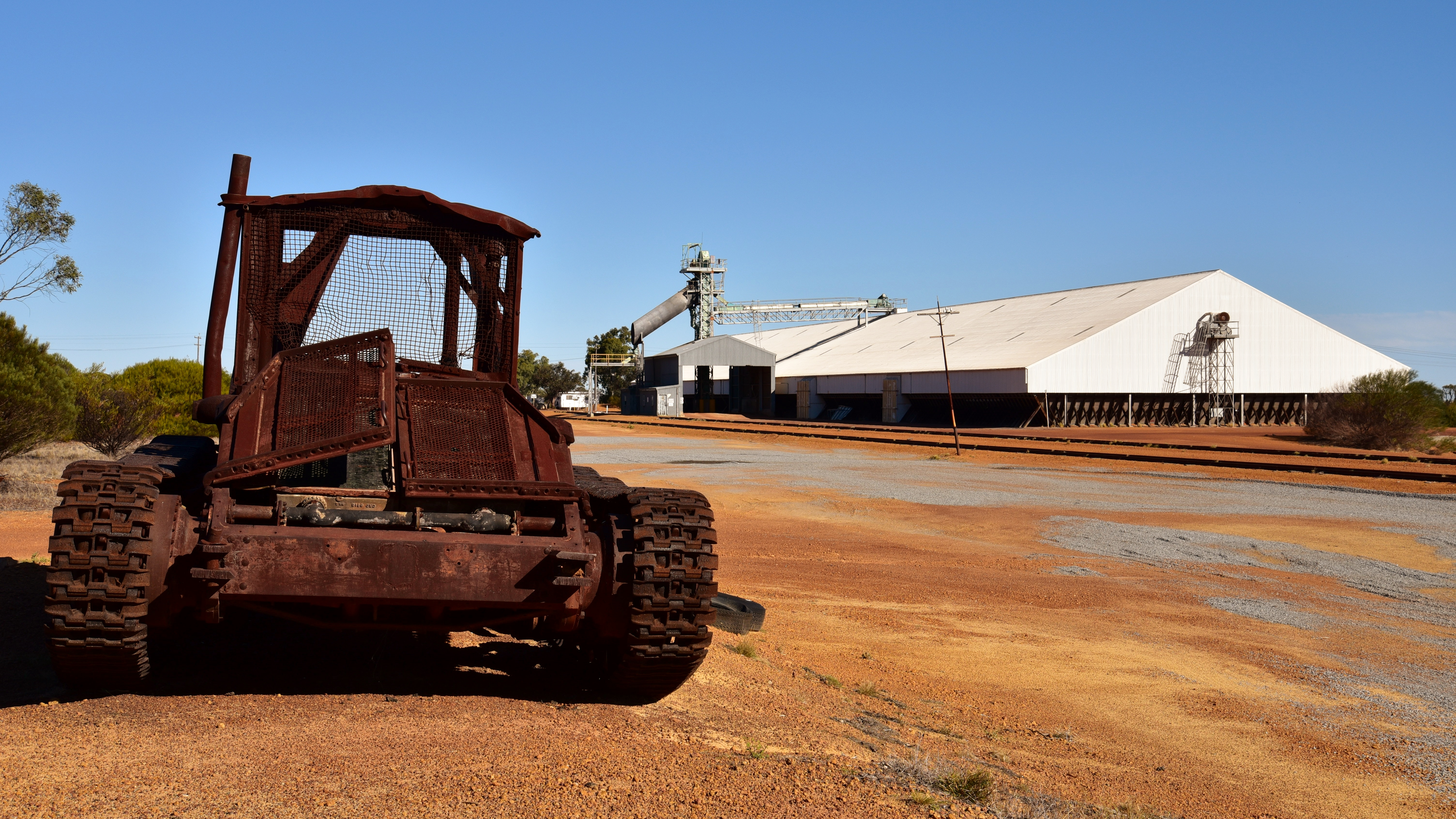 After the end of World War II, a number of former British Army Valentine tanks were shipped to Western Australia, where they were converted into agricultural machinery. This one was fitted with a tree pusher up front, and two four-metre wide rollers at the rear, and used by farmer "Mockie" Mauchlin to clear land around Maya and Latham. It is seen here preserved in derelict condition at Maya, Western Australia, with the Maya grain receival point in the background